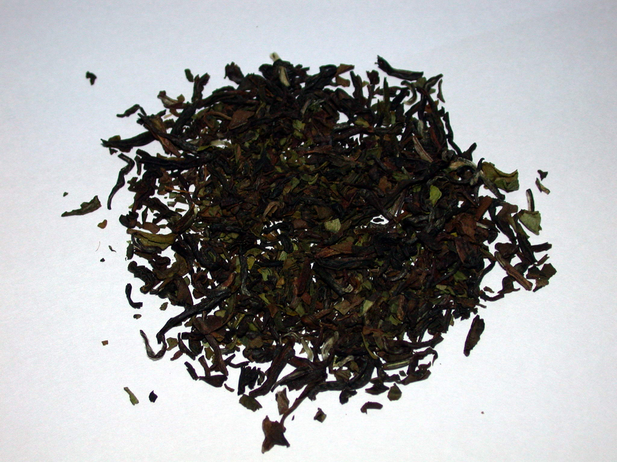 Wedgwood's Pure Darjeeling tea leaves.